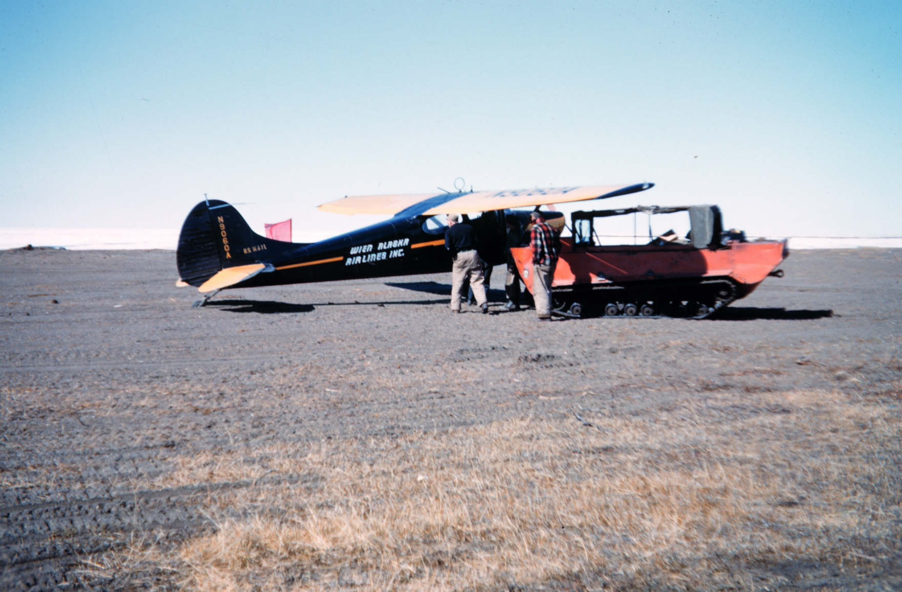 Summertime landing along the sandy beach. A Wien Alaska Airlines Cessna 170 is met by a M29C weasel at Oliktok Point, Alaska (North Slope), Summer 1951, during construction of the DEW line.